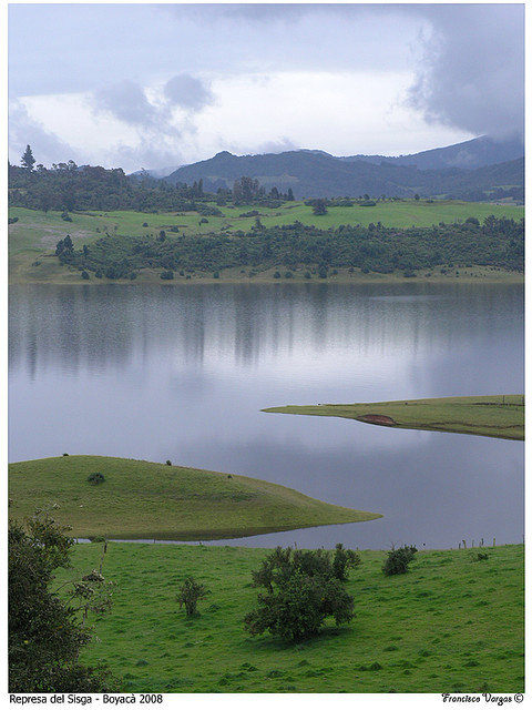 Walking around the Sisga Dam. Boyacá. Colombia.